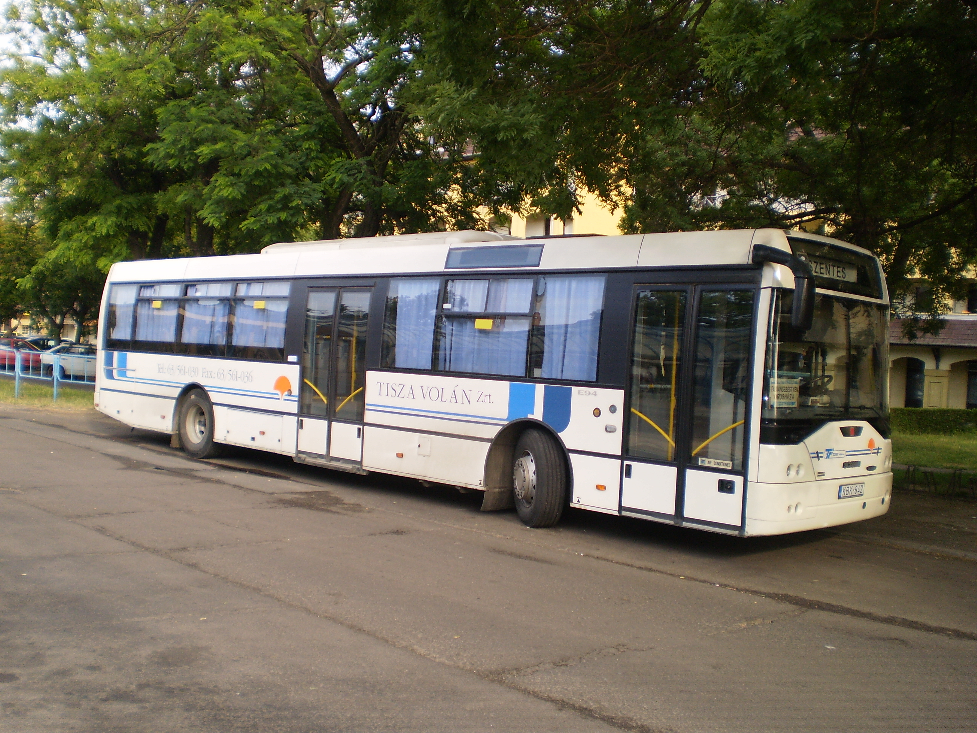 Tisza Volán bus, Szentes, Hungary.